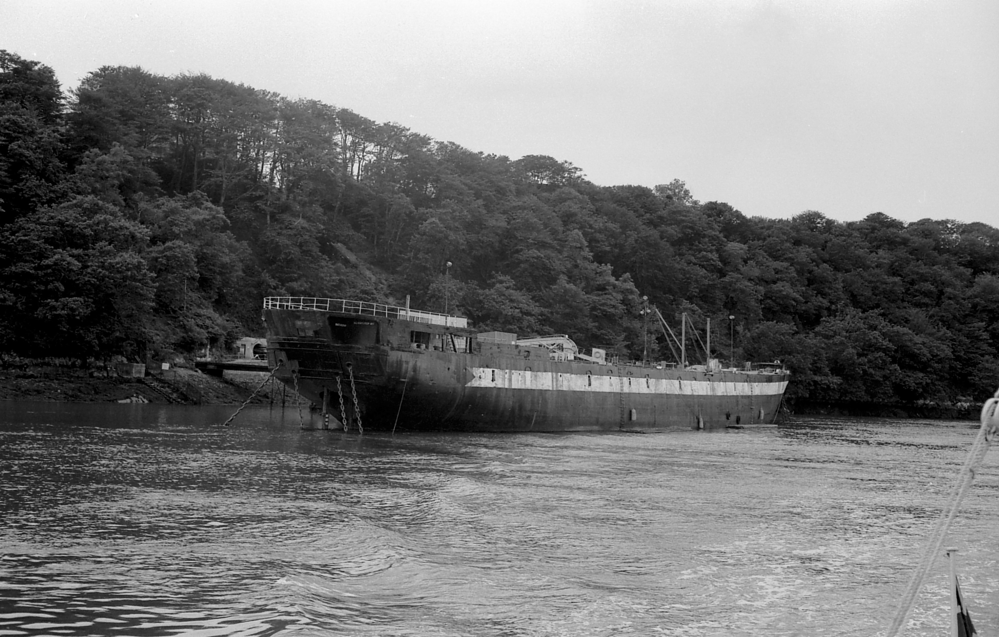 The former HMS Warrior (ship, 1860) used as an oil jetty in Pembroke Dock, Wales